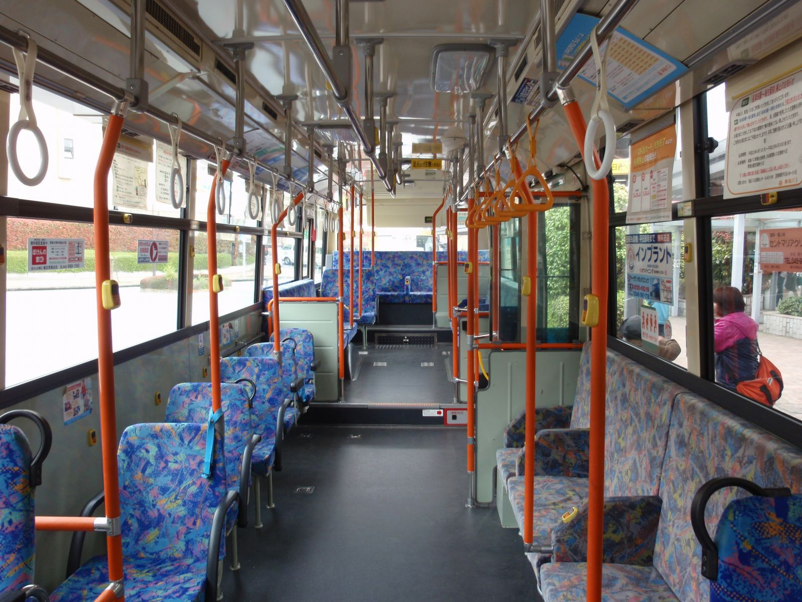 Inside of Tokyu Bus AO635